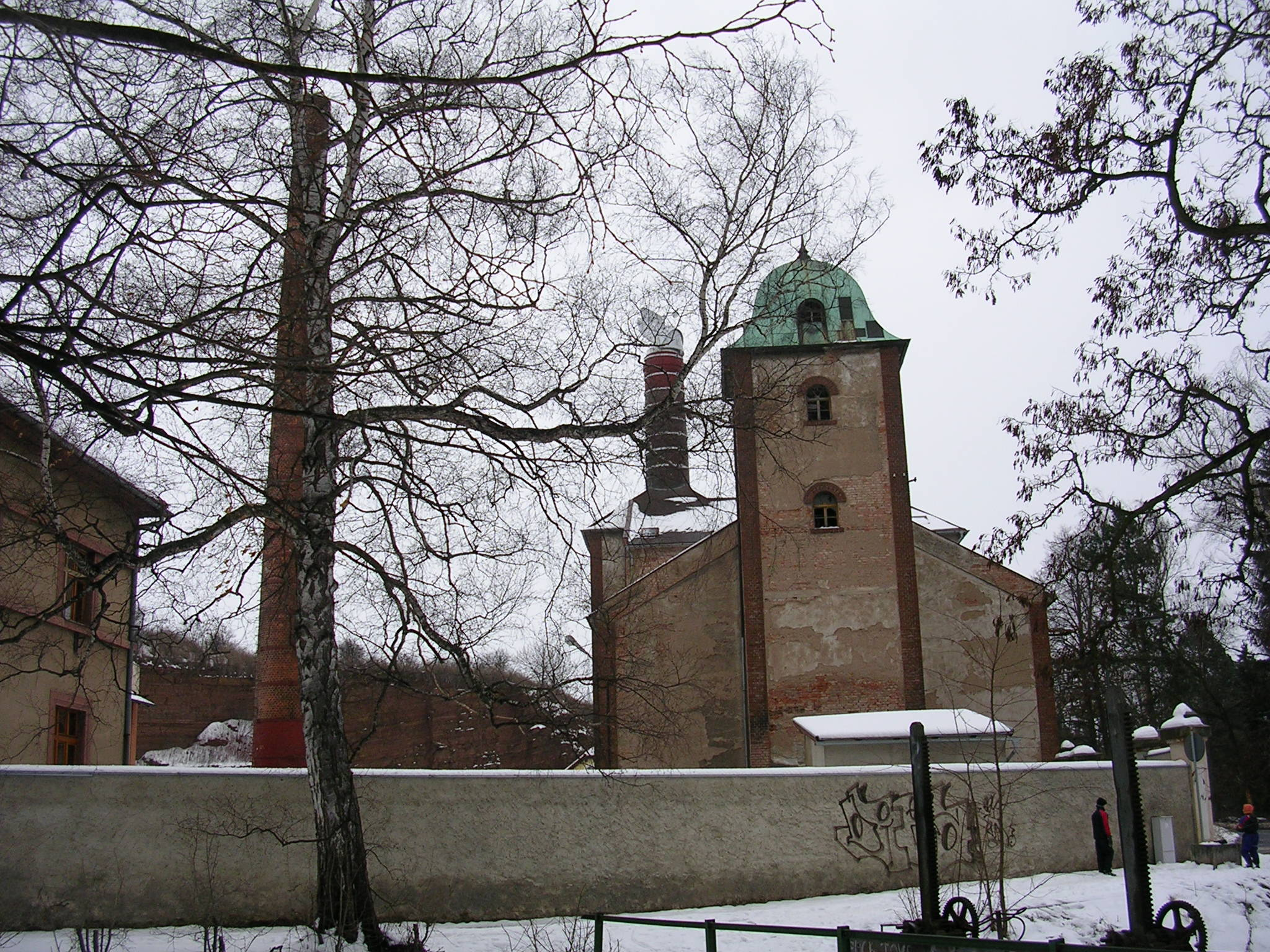 Český Brod, Central Bohemian Region, the Czech Republic. Former brewery.